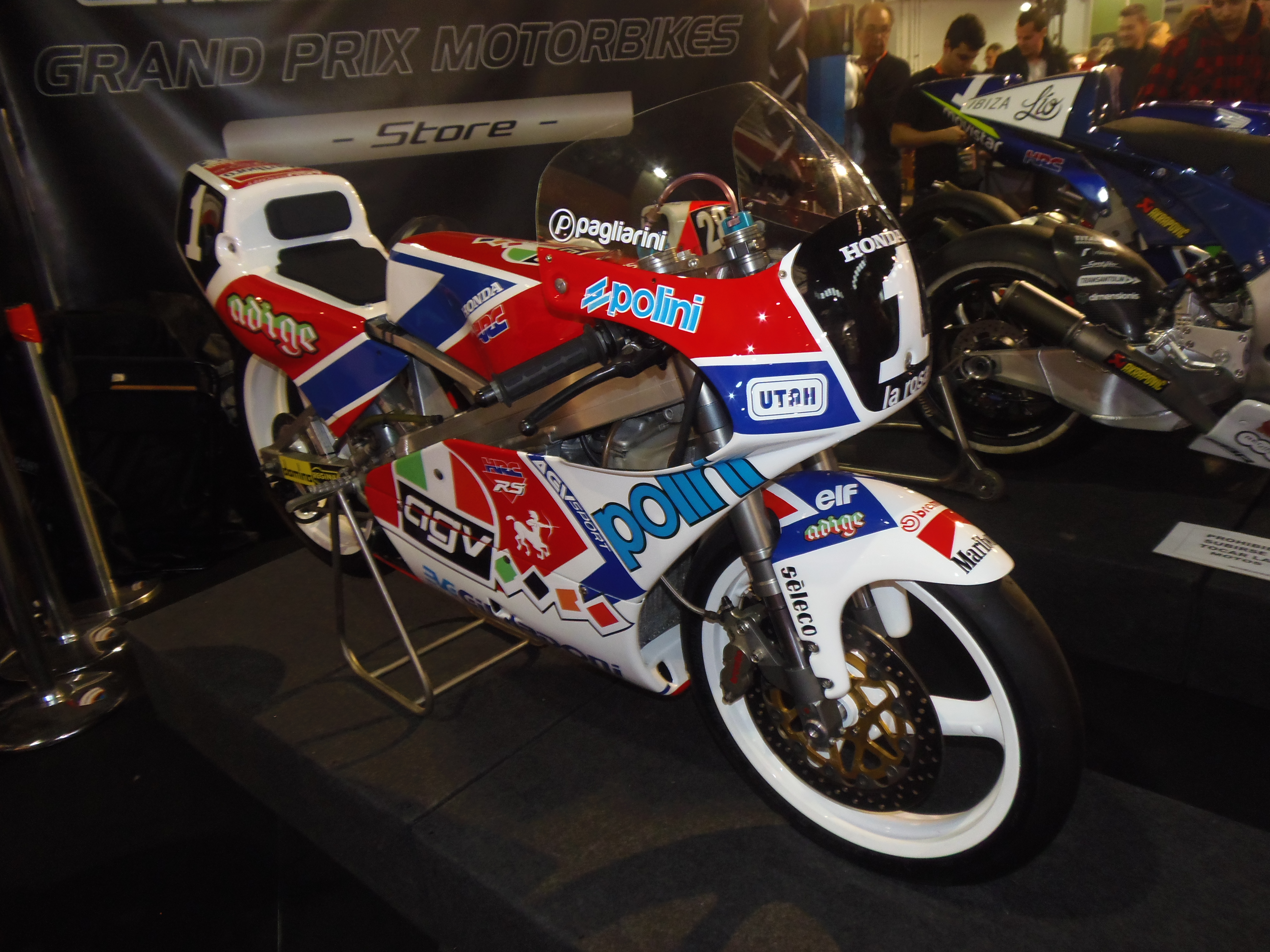 Honda RS125R, circa 1993